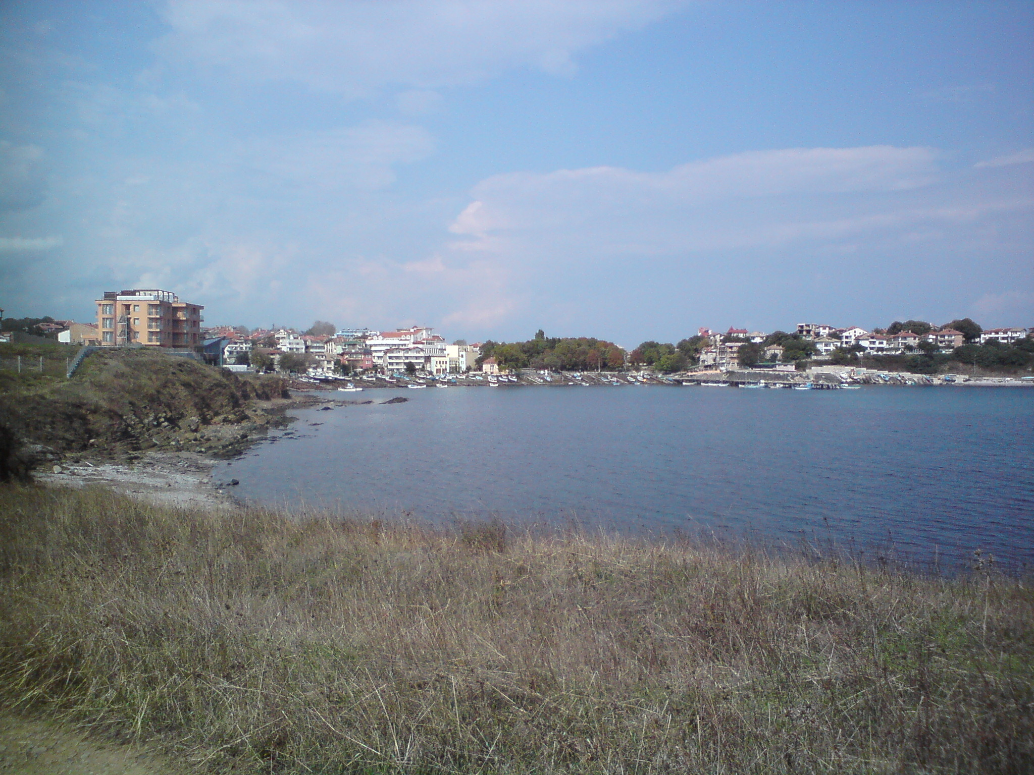 Ahtopol, Bulgaria